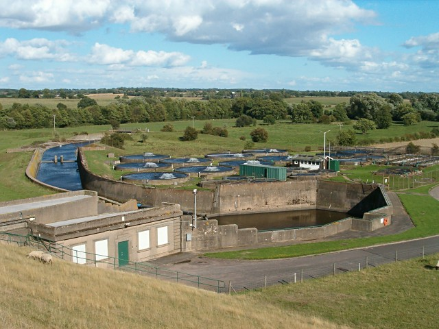 Raw water treatment. At Blithfield Reservoir, one of South Staffordshire Water Company's major assets.